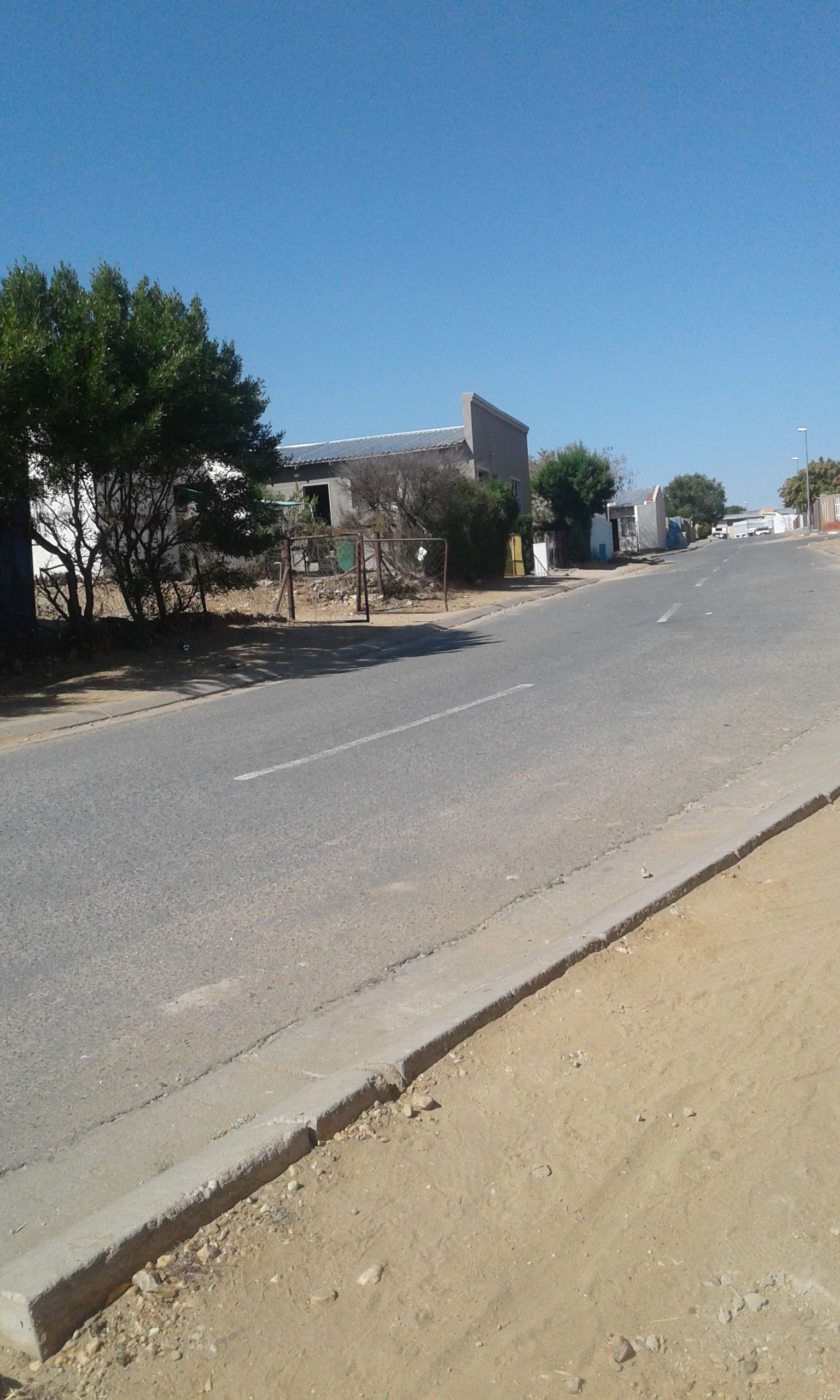 A street in Windhoek